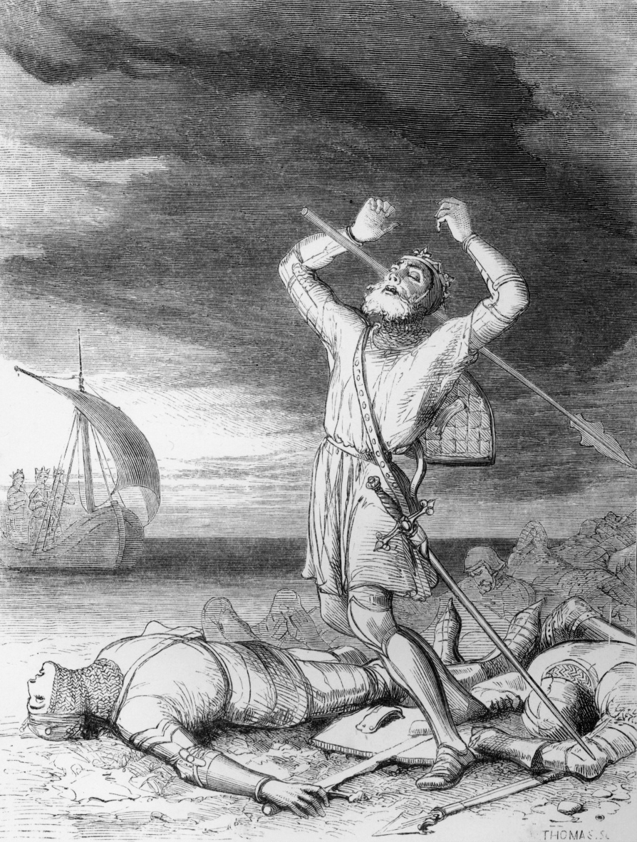 From The Story of King Arthur and His Knights Of the Round Table by Sir James Knowles.